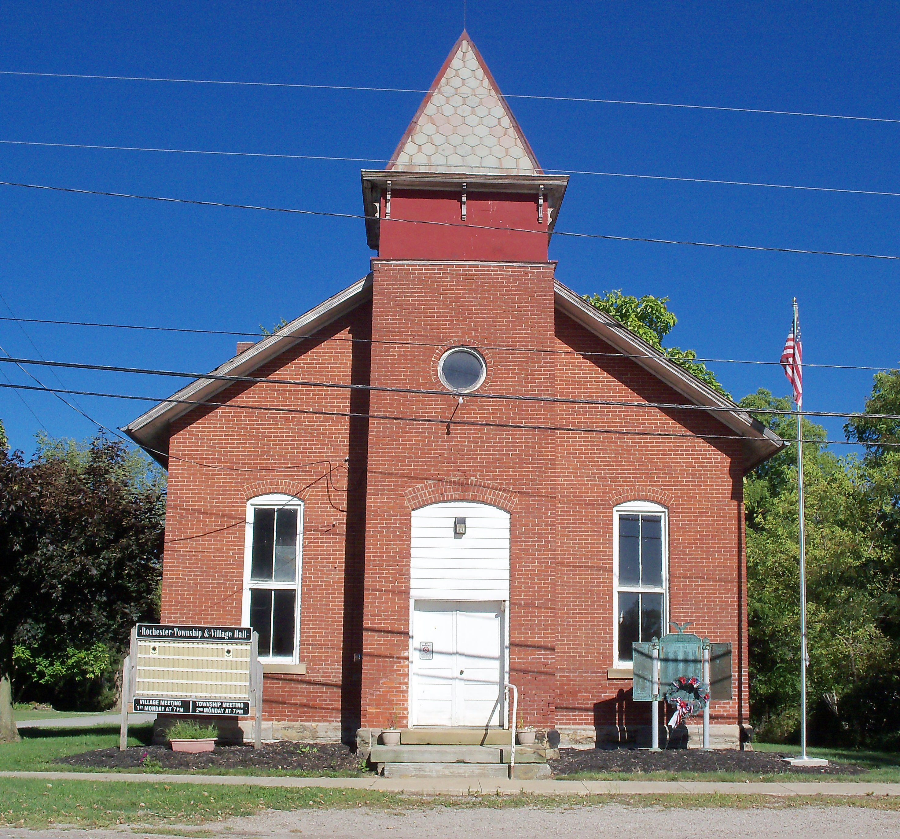 This building is the town hall for Rochester, Ohio and the township hall for Rochester Township, Lorain County, Ohio